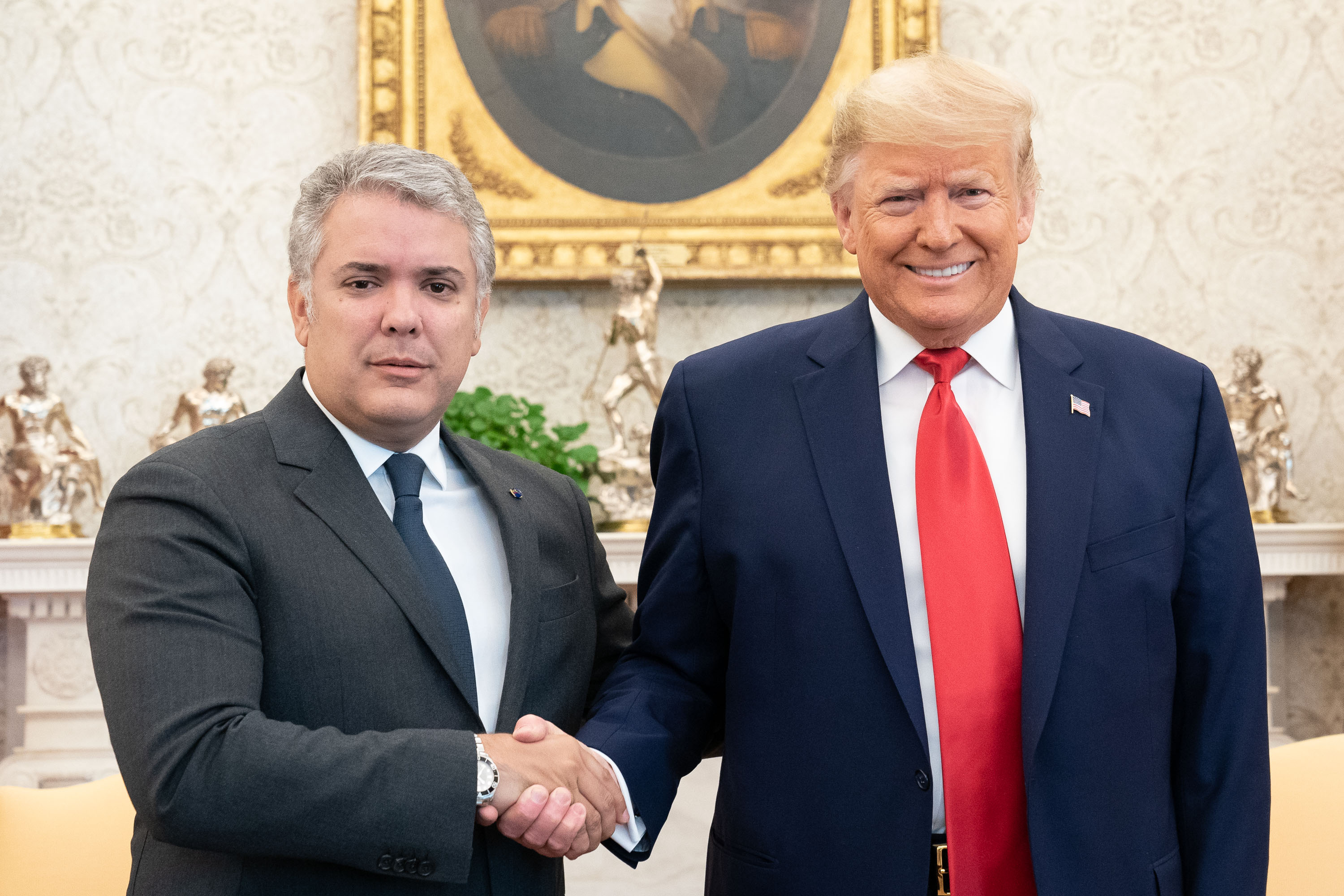 President Donald J. Trump meets with Colombian President Iván Duque Márquez Monday, March 2, 2020, in the Oval Office of the White House. (Official White House Photo by Joyce N. Boghosian)